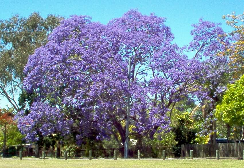 Jacaranda tree in bloom Brisbane, Australia Photograph taken by self, User:Shiftchange, October 2004